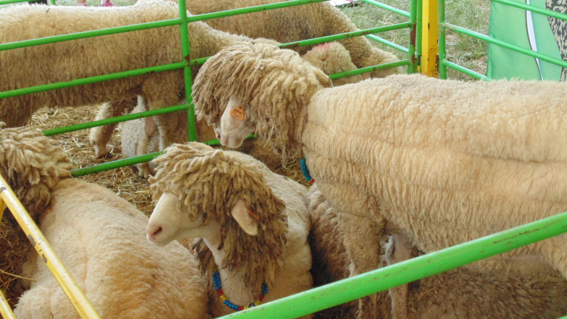 White Maritza Sheep